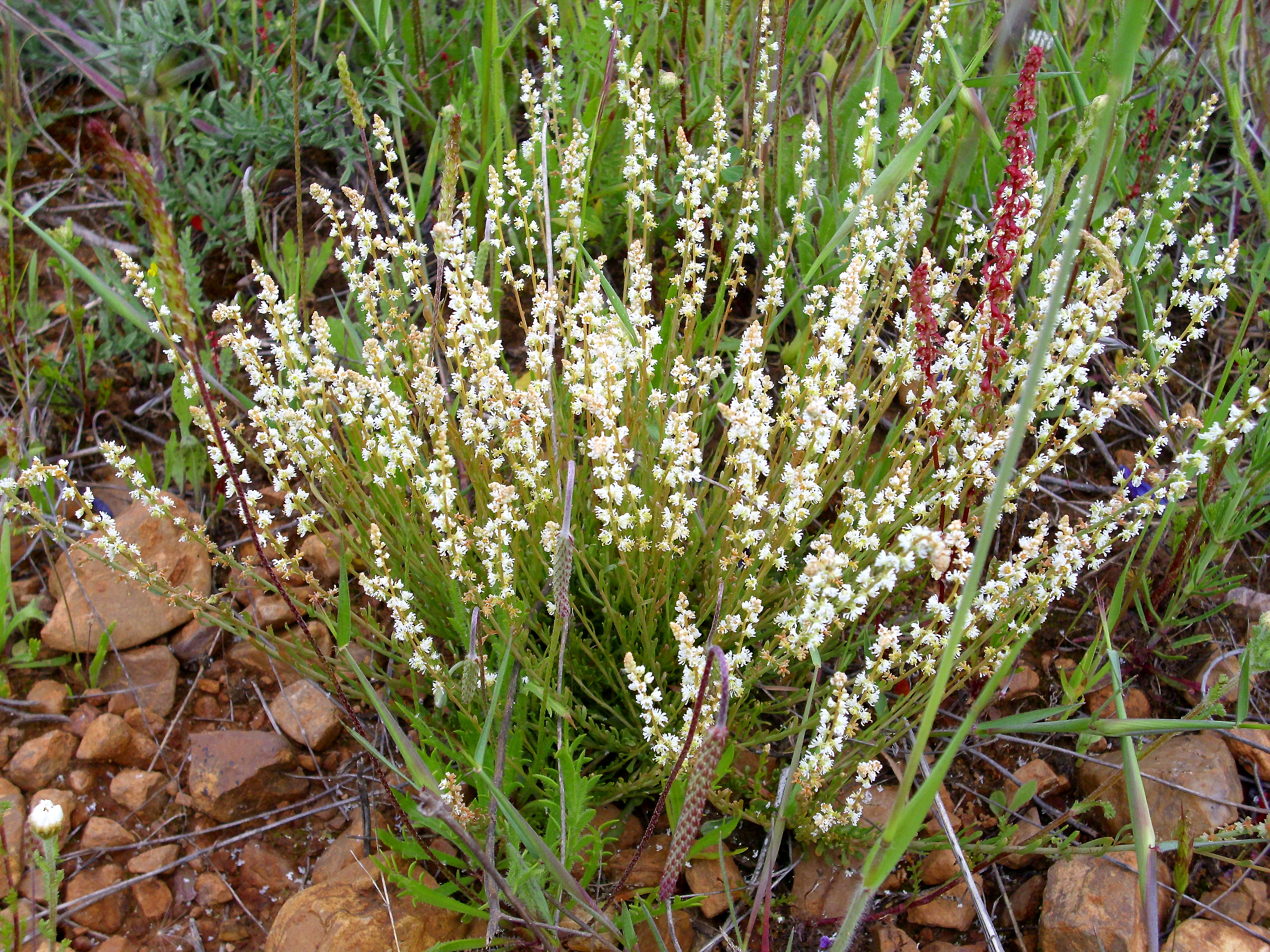 Sesamoides purpurascens habit, Campo de Calatrava, Spain